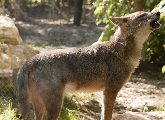 Golden jackal (Canis aureus) in Zoo Szeged